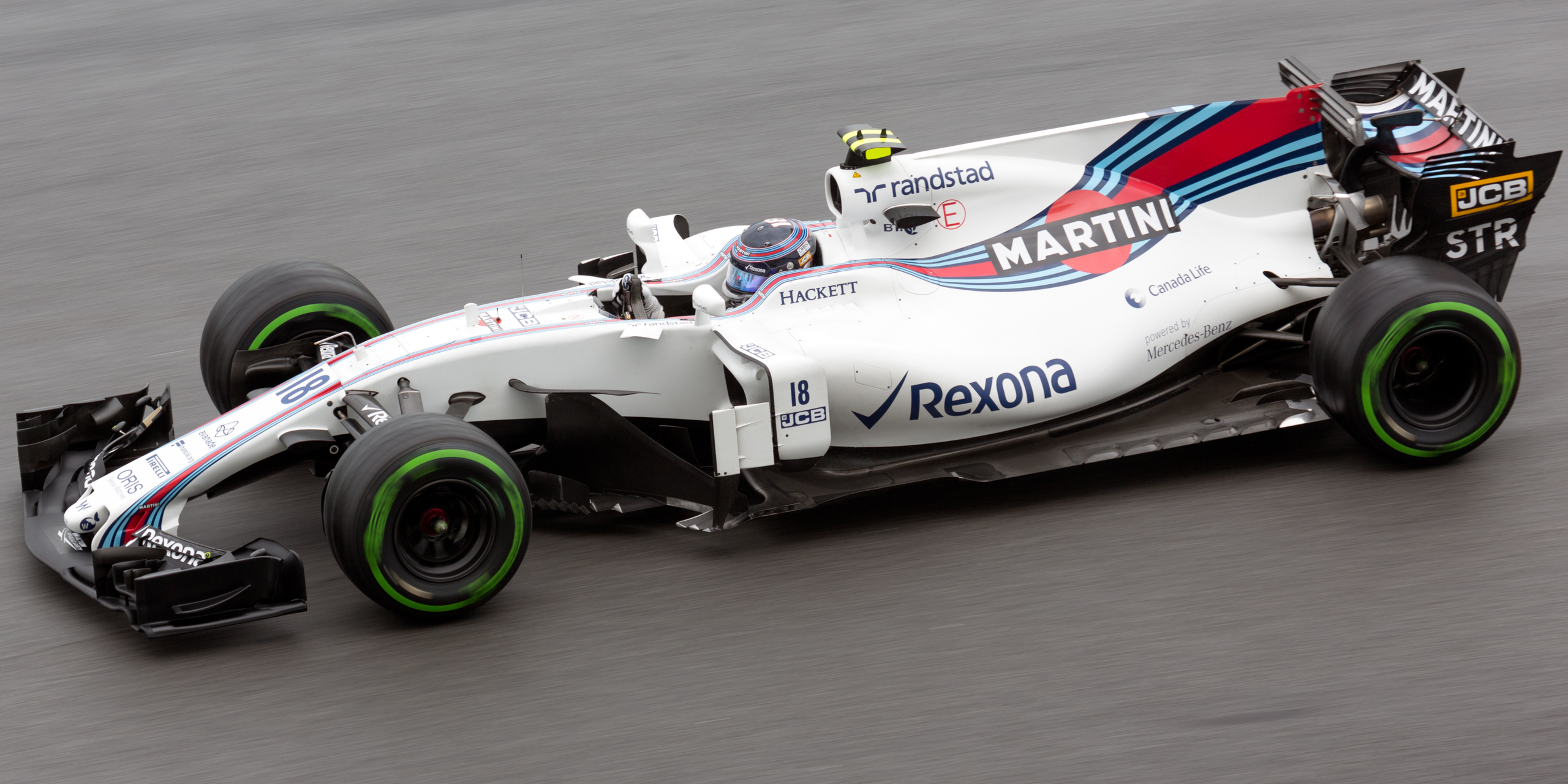 Formula One 2017 Rd.15 Malaysian GP: Lance Stroll (Williams)